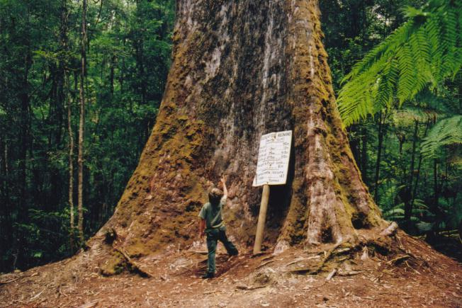 Tasmania, Styx valley, child standing under 92 metre tree, thought at the time to be the tallest eucalyptus regnans. This tree stands in a small reserve with several other trees of about the same height, deemed too tall to be logged. The sign states its dimensions, including the tonnage of logs that it would produce, if logged.